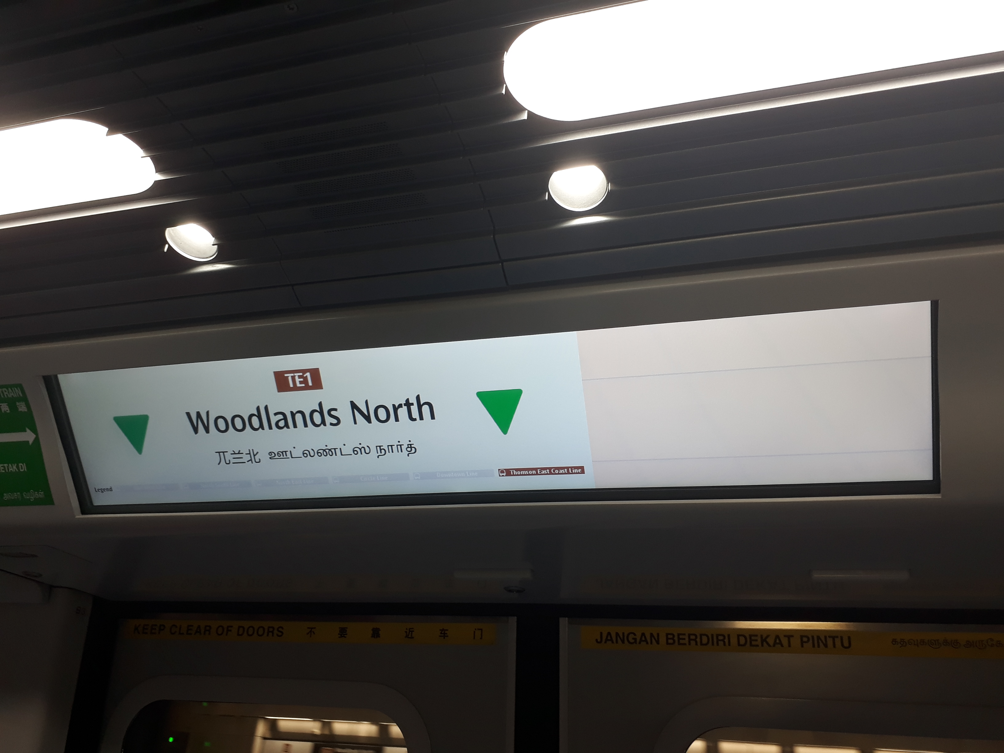 Kawasaki CT251 info display